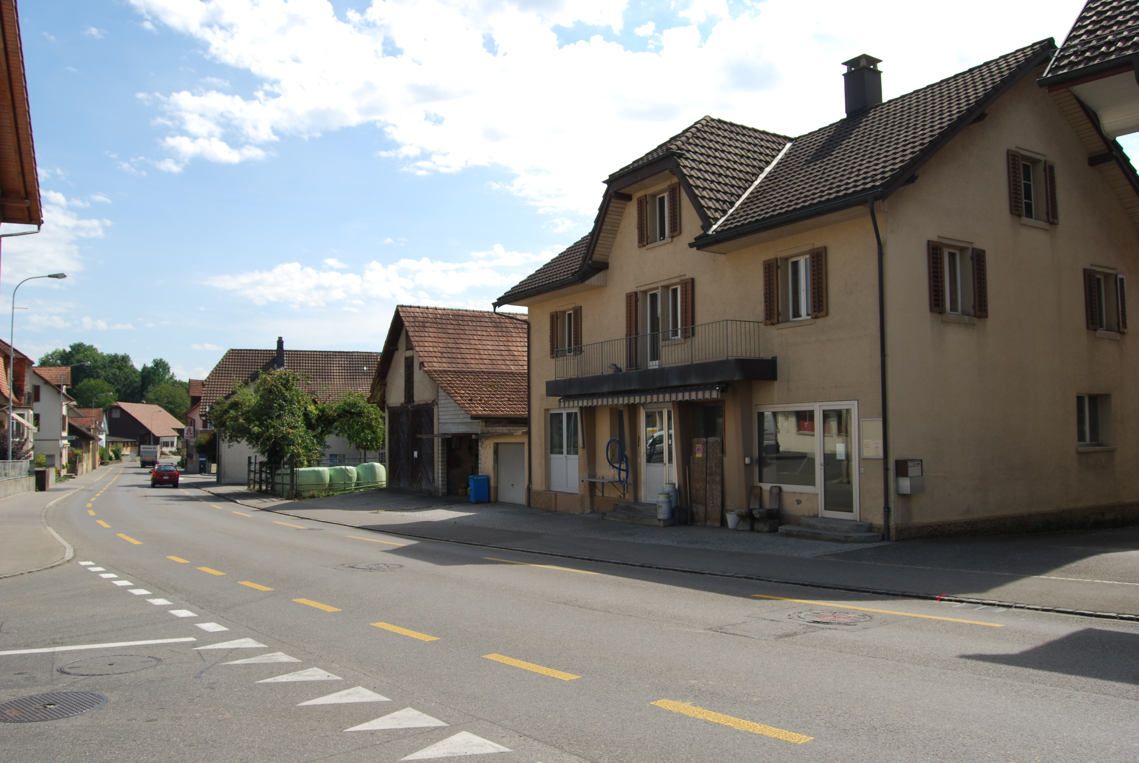 Zetzwil, canton of Aargau, SwitzerlandEsperanto: Zetzwil, Kantono Argovio, Svislando